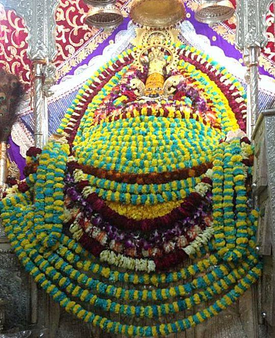 Shri khatu shyam ji in Falgun Festival by niks